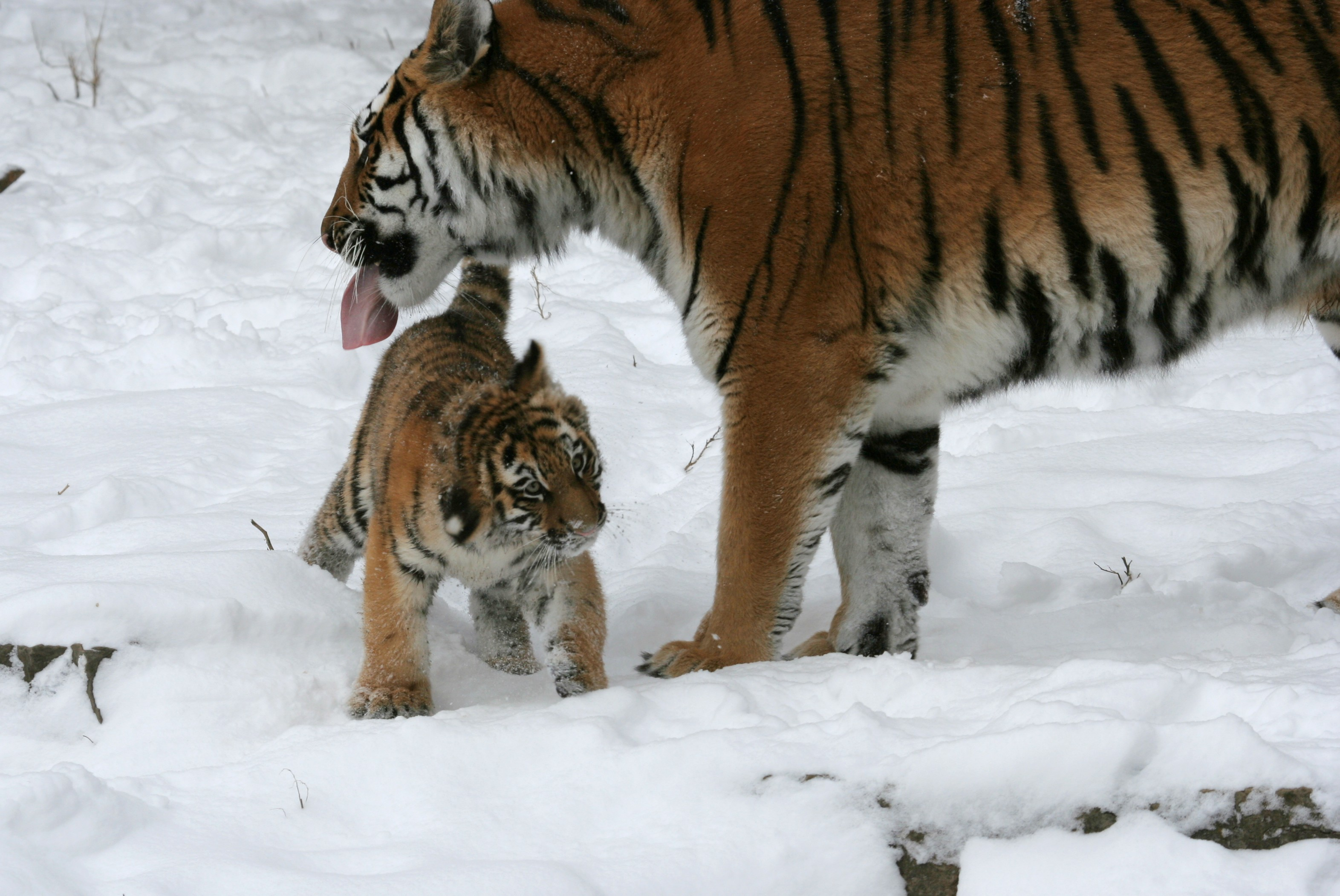 Amur tiger (Panthera tigris altaica) at the Buffalo Zoo. Cubs Thyme and Warner, with their mother Sungari. The cubs were born at the zoo to Sungari, and father Toma, on 7 October 2007.